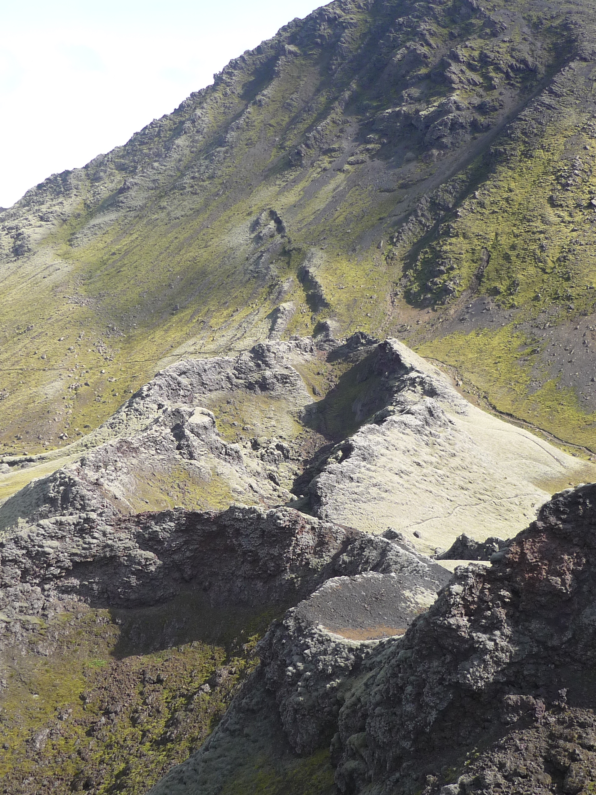 Laki dissected by Lakagígar, Iceland